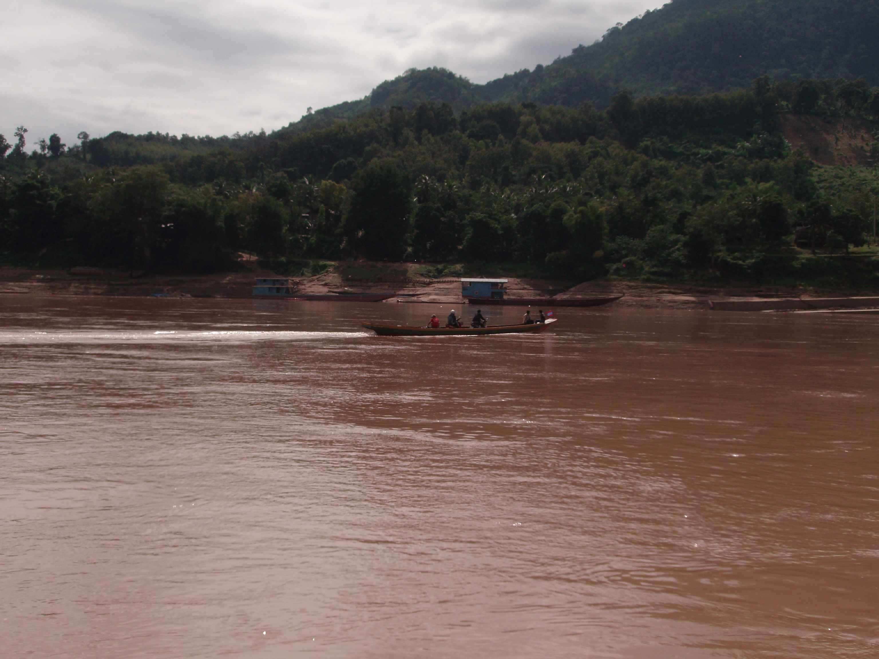 A small ferry on the Mekong river close to Muang Nanin Laos